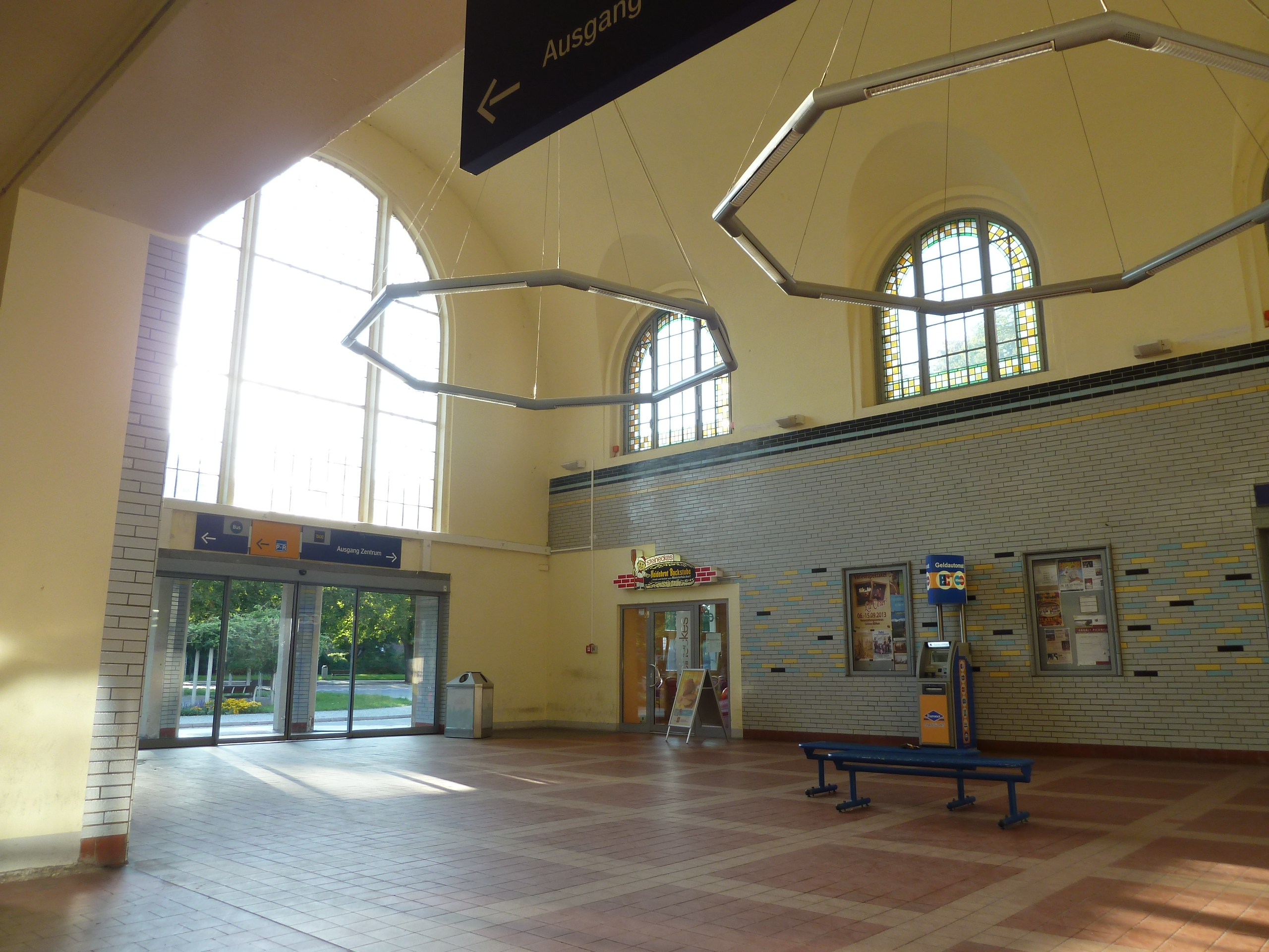 The recent station bulding in Köthen was built arount 1915. The building is part of sequences of station buildings from different epoches wich is unique for Gernamy. Entrance hall.